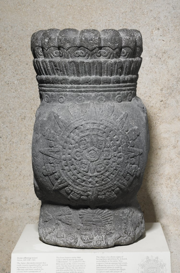 From the British Museum: Offering vessel (cuauhxicalli) made of basalt. The shape of the vessel echoes that of pottery storage jars used to hold pulque. Its upper part is composed of encircling superimposed bands of human hearts, feathers and jade. The front bears a solar disk and the glyph 4 Movement, the symbol for the fifth epoch in the Aztec creation cycle. On the base beneath this is the glyph 1 Rain. On the obverse side a symbol for the moon is found together with the glyph 2 Rabbit, one of the calendrical names for the pulque god. The hollow basin on the top of the vessel and some details of the exterior surface were never completed. The object also shows signs of having been intentionally defaced, particularly at the sides. Offering vessel (cuauhxicalli) made of basalt. The shape of the vessel echoes that of pottery storage jars used to hold pulque. Its upper part is composed of encircling superimposed bands of human hearts, feathers and jade. The front bears a solar disk and the glyph 4 Movement, the symbol for the fifth epoch in the Aztec creation cycle. On the base beneath this is the glyph 1 Rain. On the obverse side a symbol for the moon is found together with the glyph 2 Rabbit, one of the calendrical names for the pulque god. The hollow basin on the top of the vessel and some details of the exterior surface were never completed. The object also shows signs of having been intentionally defaced, particularly at the sides.